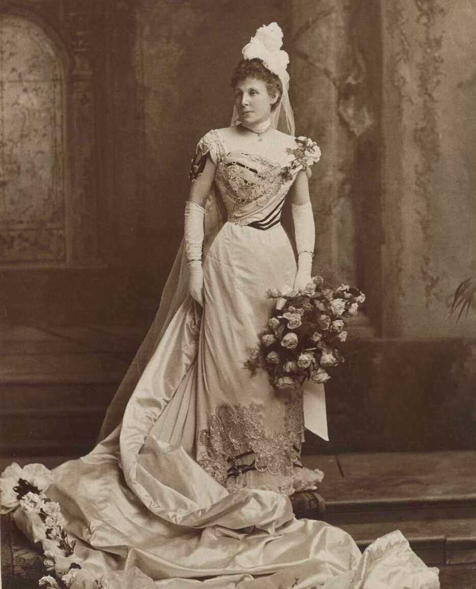 Jane Barton wearing court dress - possibly on a visit to England for the coronation of Edward VII?